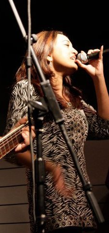 Suzana on stage